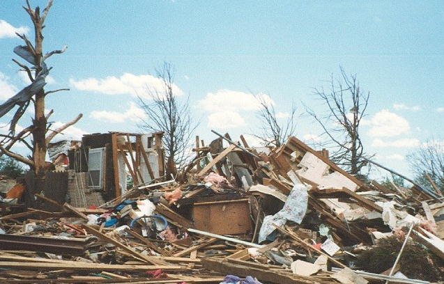 An example of F3 tornado damage. (Damage Scale)